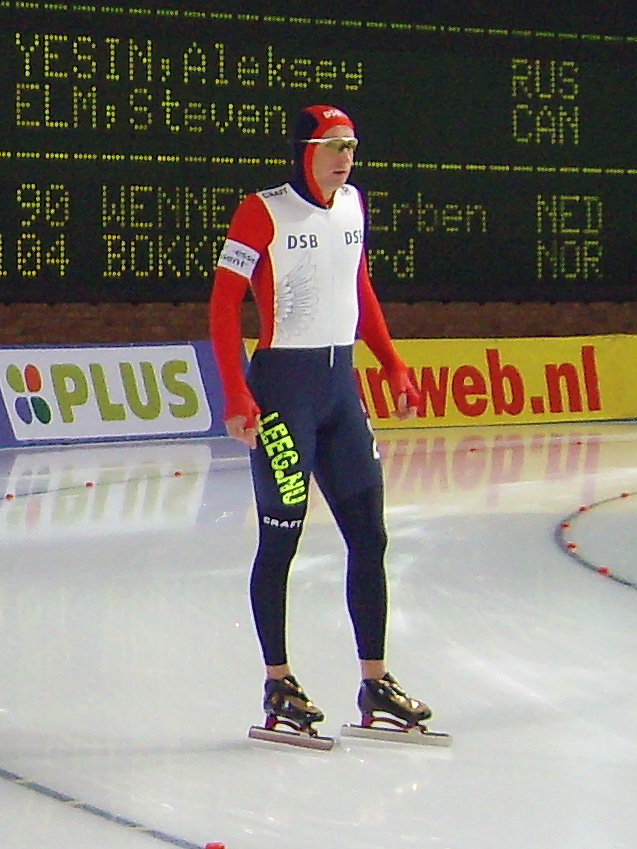 Alexsej Jesin (RUS) befor 1500 meters world cup speedskating race in Berlin, Germany.